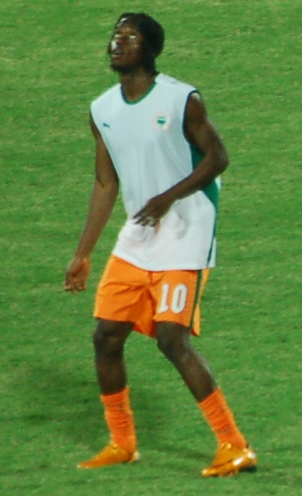 Gervinho, cropped from Arouna2.jpg: aken by myself in Kumasi, Ghana. Arouna (second left) warms up with Ivorian teammates at African Cup of Nations 2008 in Ghana.